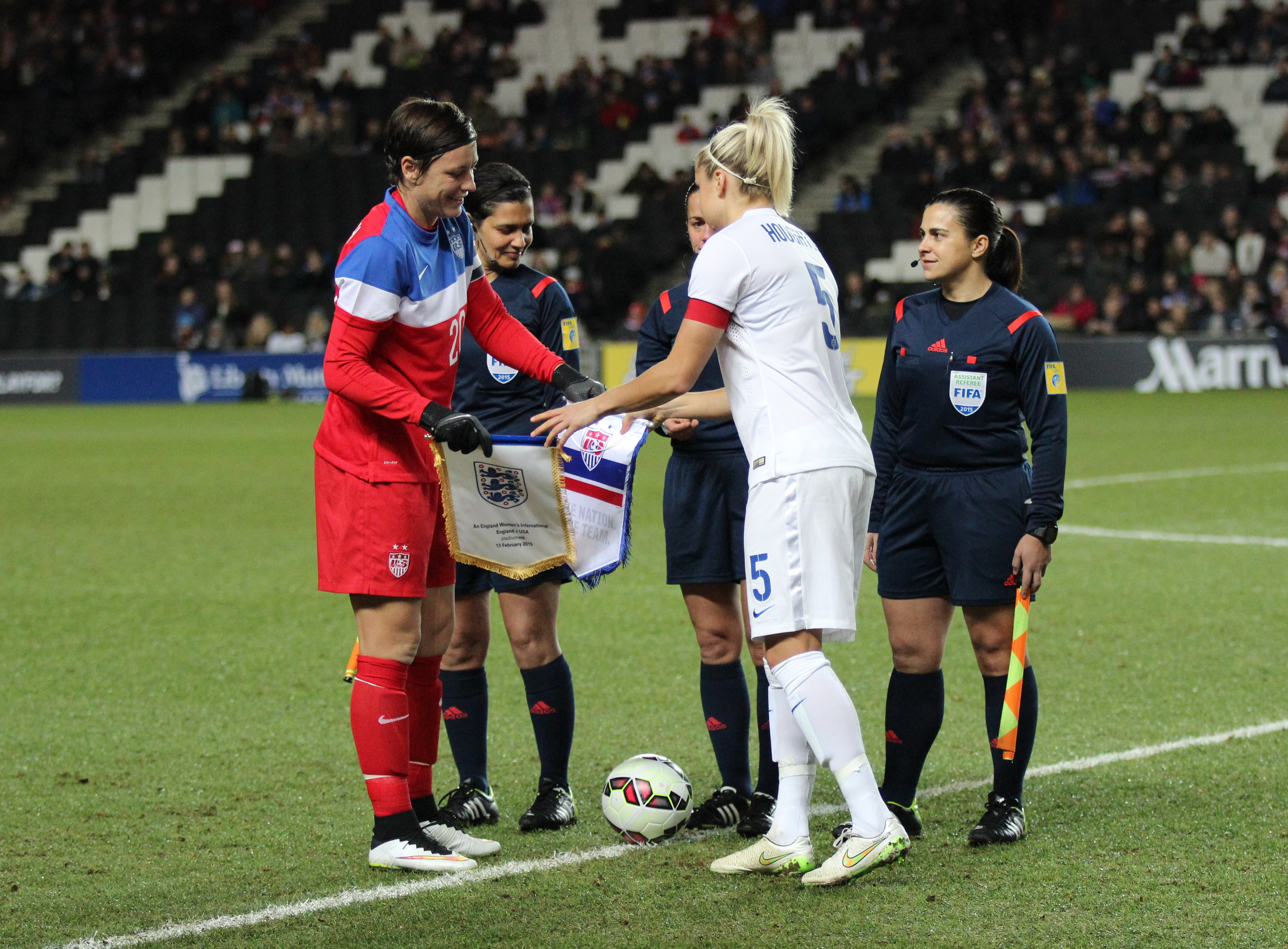 England Women's captain Steph Houghton and USA Women's captain Abby Wambach shake hands before kick off.